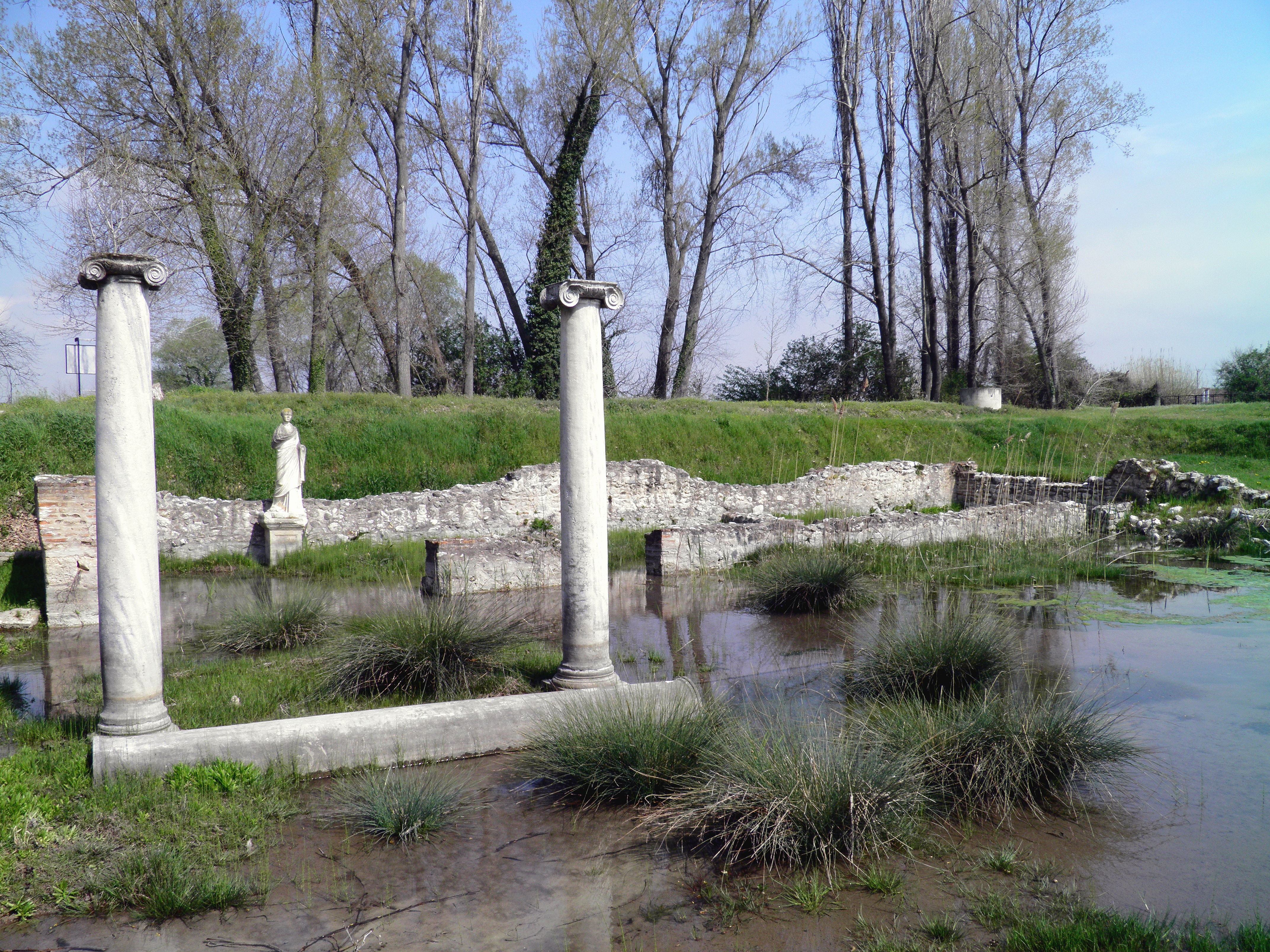 Sanctuary of Isis, Ancient Dion